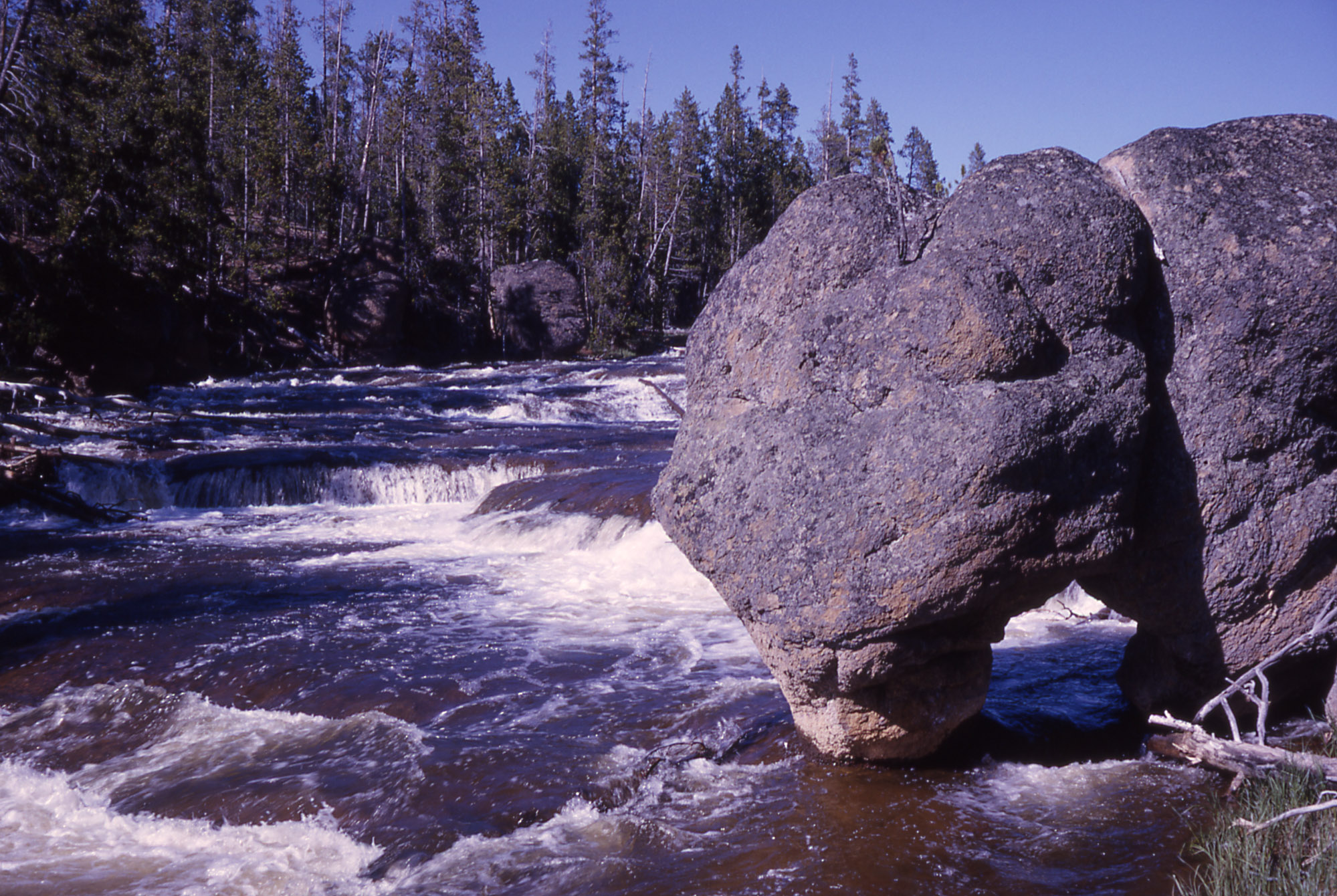 Giibon River At Duck Rock in Yellowstone National Park (1963)